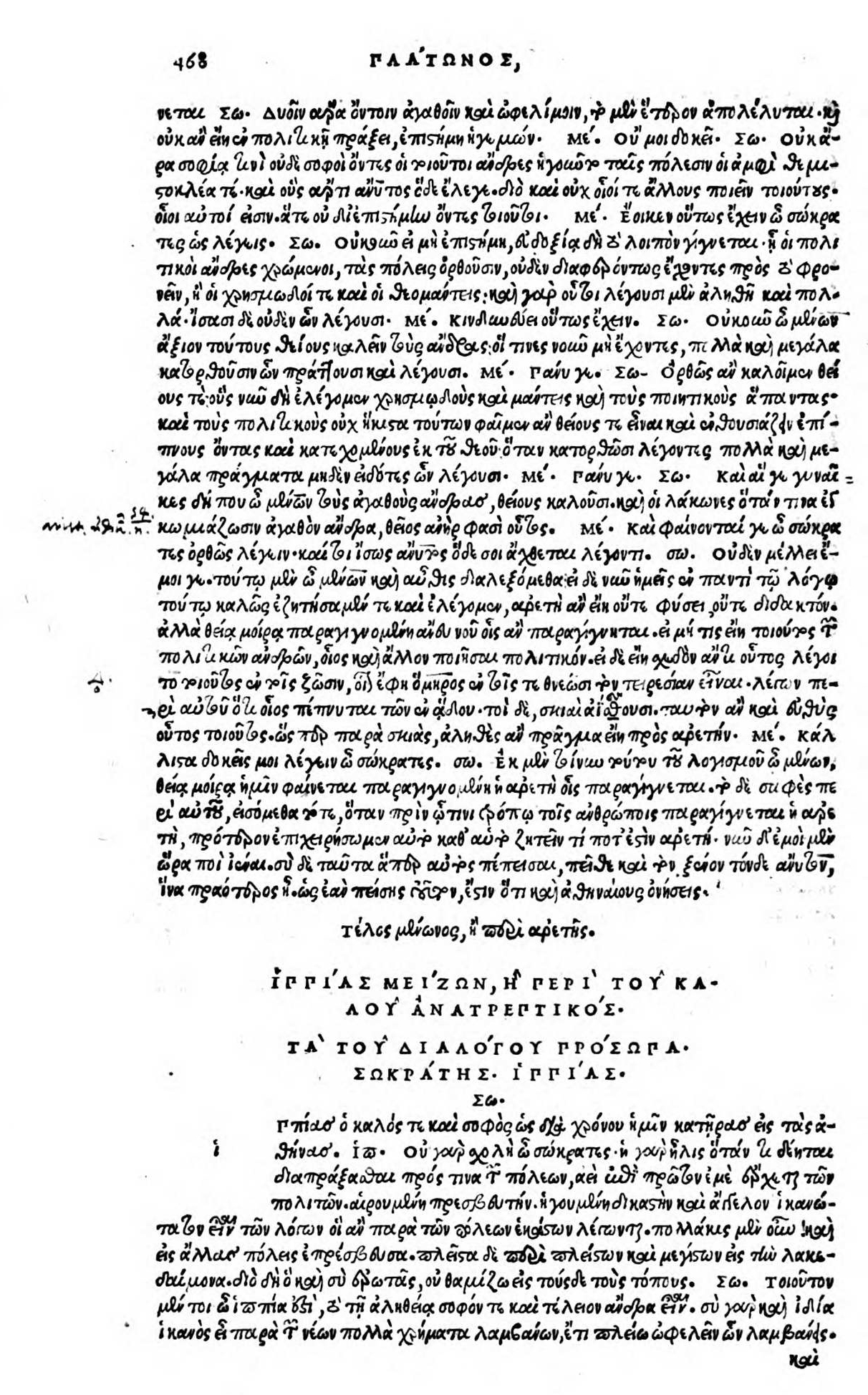 Hippias maior beginning. Editio princeps, Venice 1513.